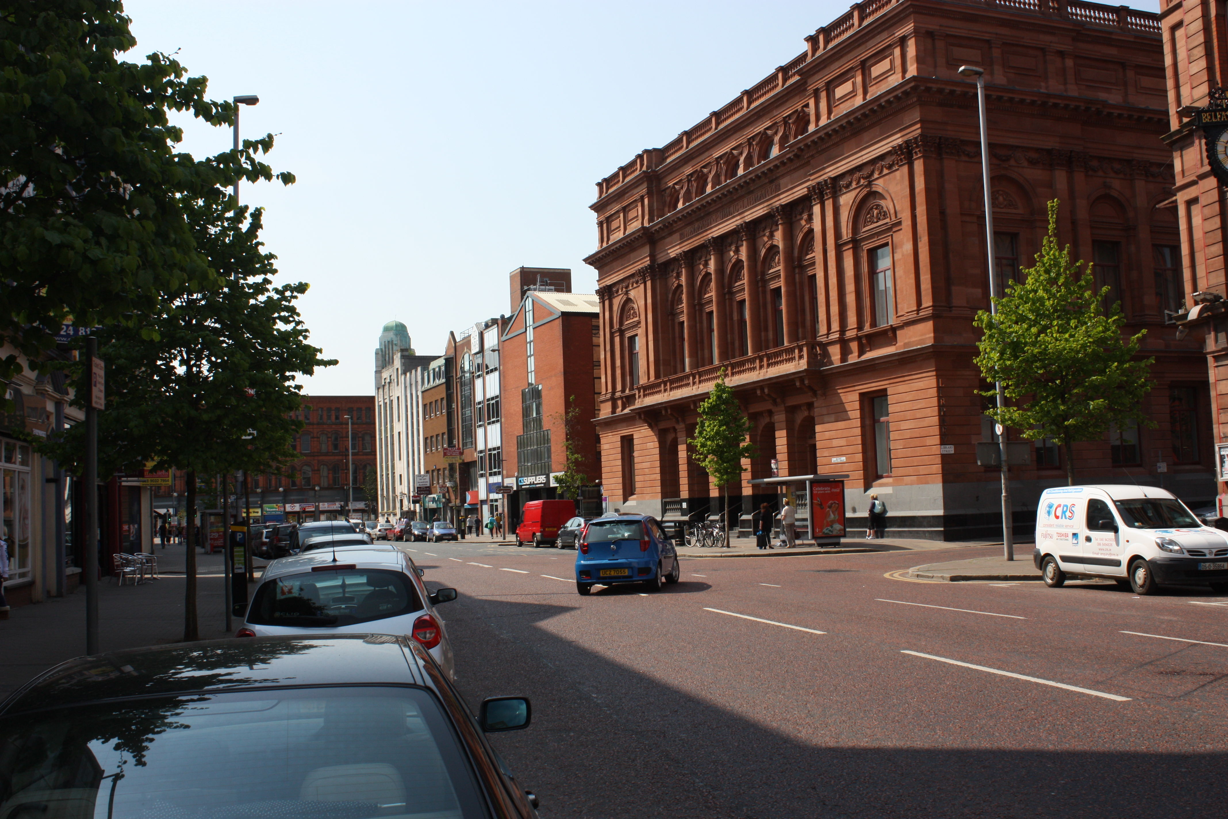 Belfast Central Library and Royal Avenue, Belfast, Northern Ireland, April 2011